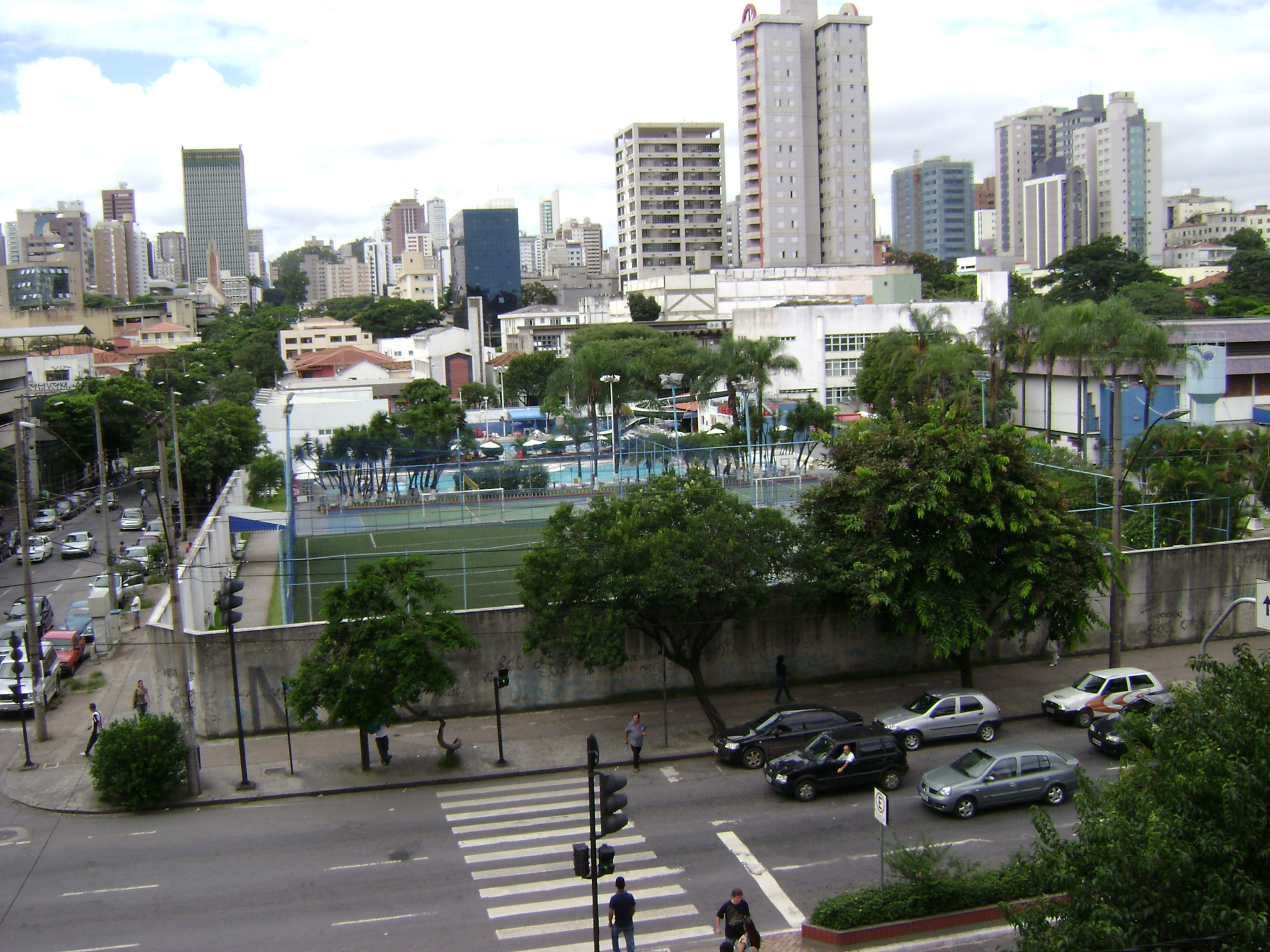 Clube - sede do Cruzeiro Esporte Clube, em Belo Horizonte.